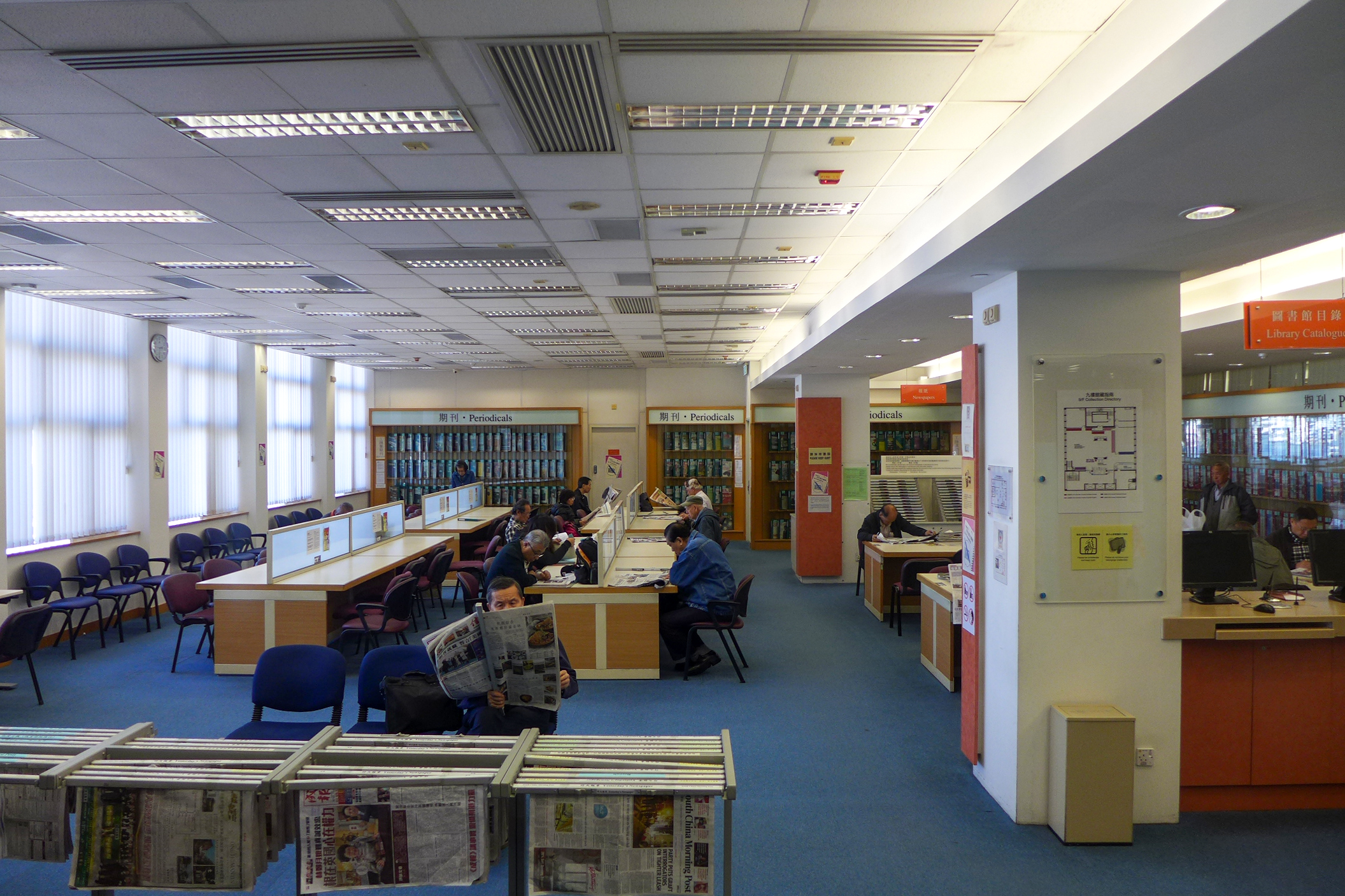 City Hall Public Library Level 9